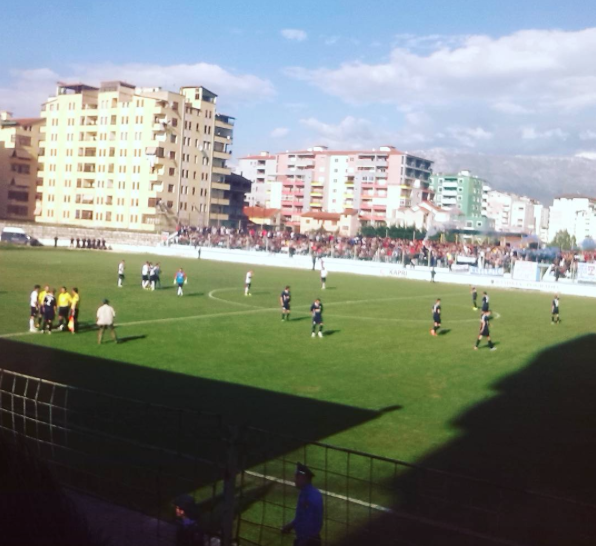 Gjorgji Kyçyku Stadium in Pogradec in 2015